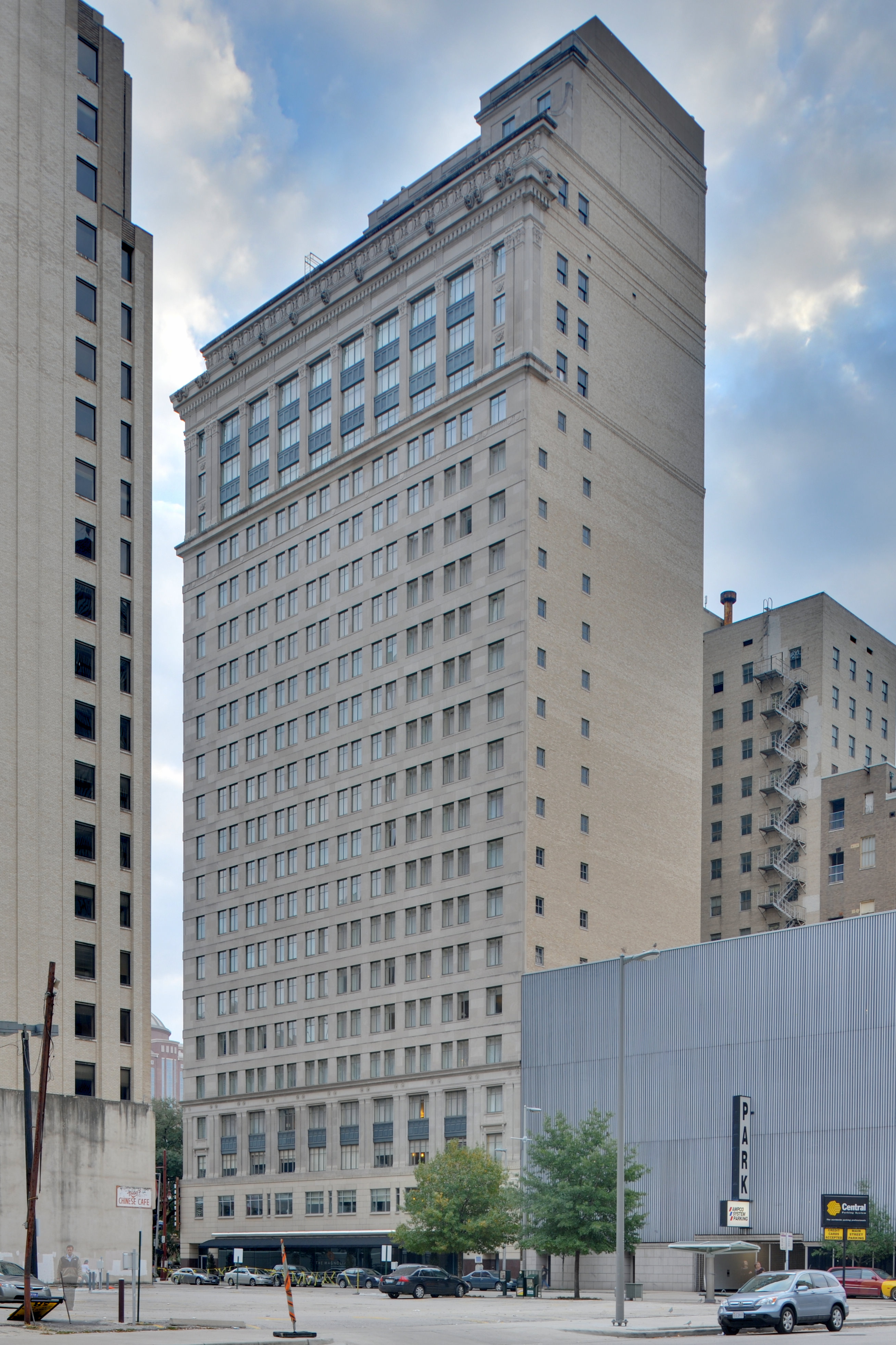 The Houston Post-Dispatch Building, 609 Fannin St., Houston (Texas, USA) is listed in the National Register of Historic Places, United States Department of the Interior.